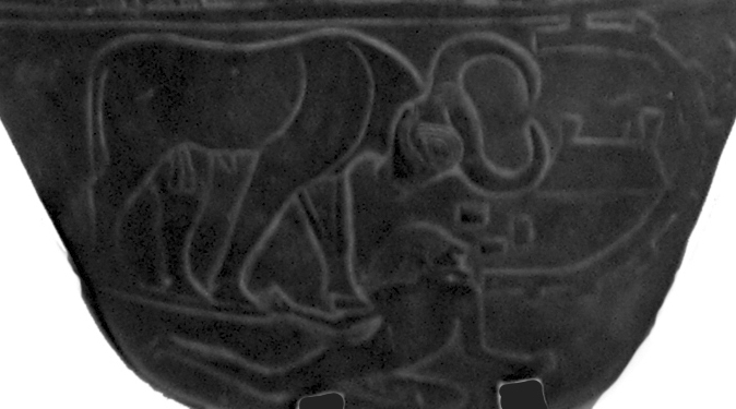 Image:NarmerPalette ROM.jpg by Captmondo, gamma adjusted to bring out more detail at lower resolutions